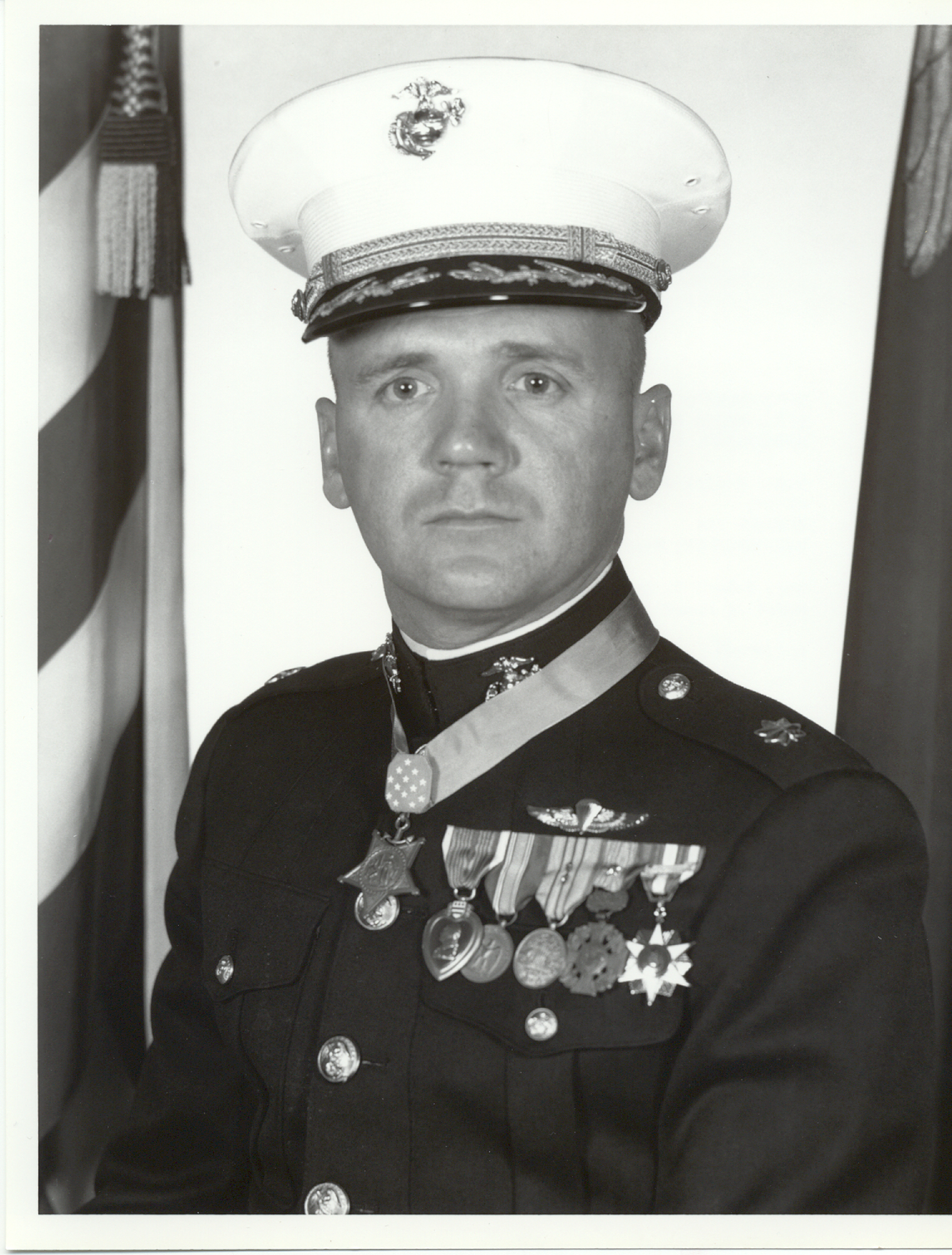 Robert Joseph Modrzejewski, USMC (Retired); Medal of Honor recipient for heroic action during the Vietnam War.